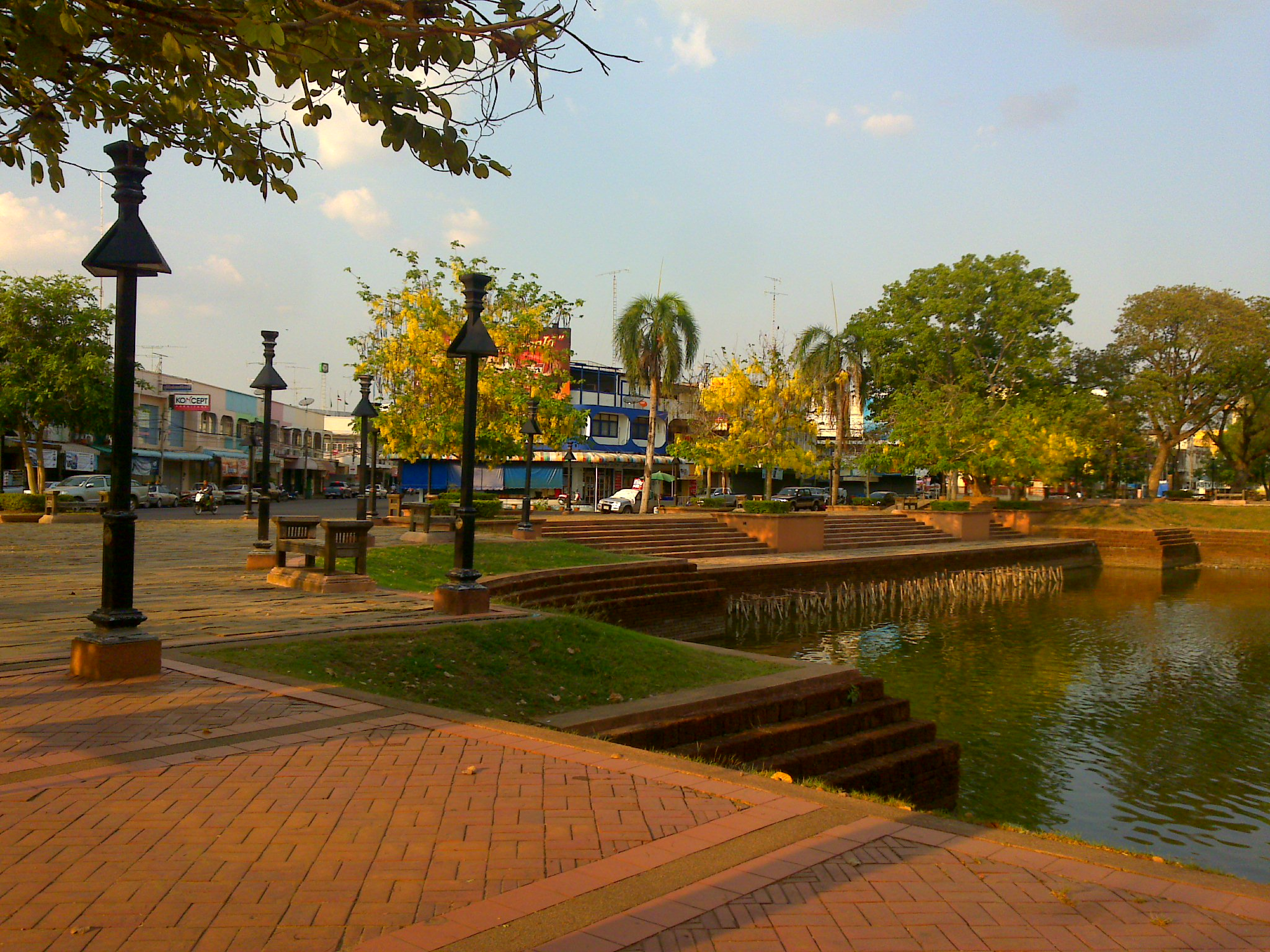 Romburi Park in the evening, Buriram Province.